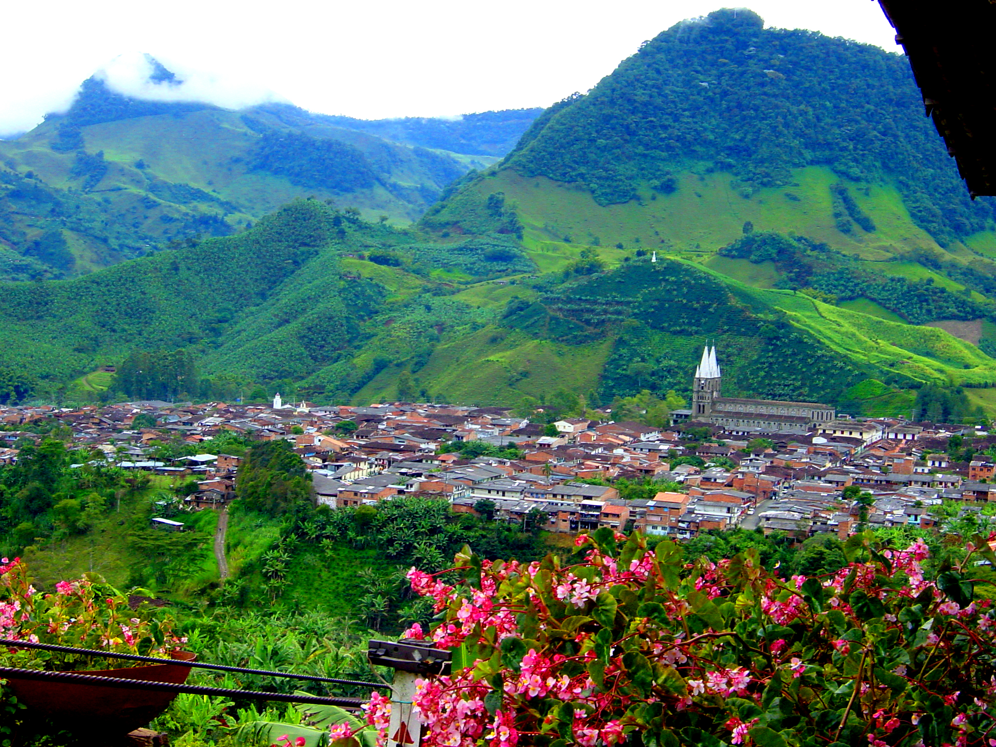 Image taken by uploader on October 2006